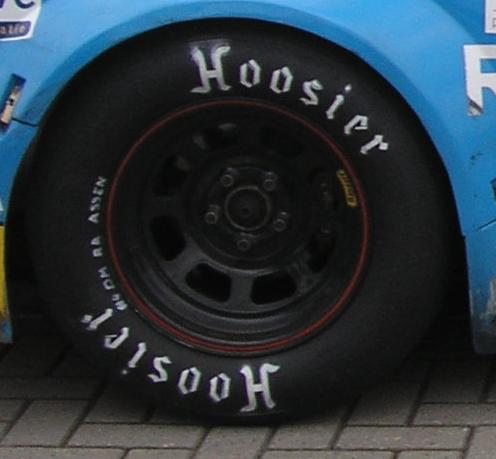 A Hoosier tire on a BRL V6 car.